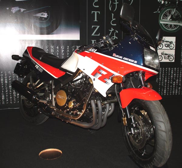 Yamaha FZ750